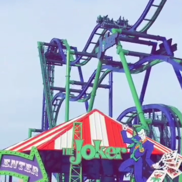 The Joker at Six Flags Over Texas